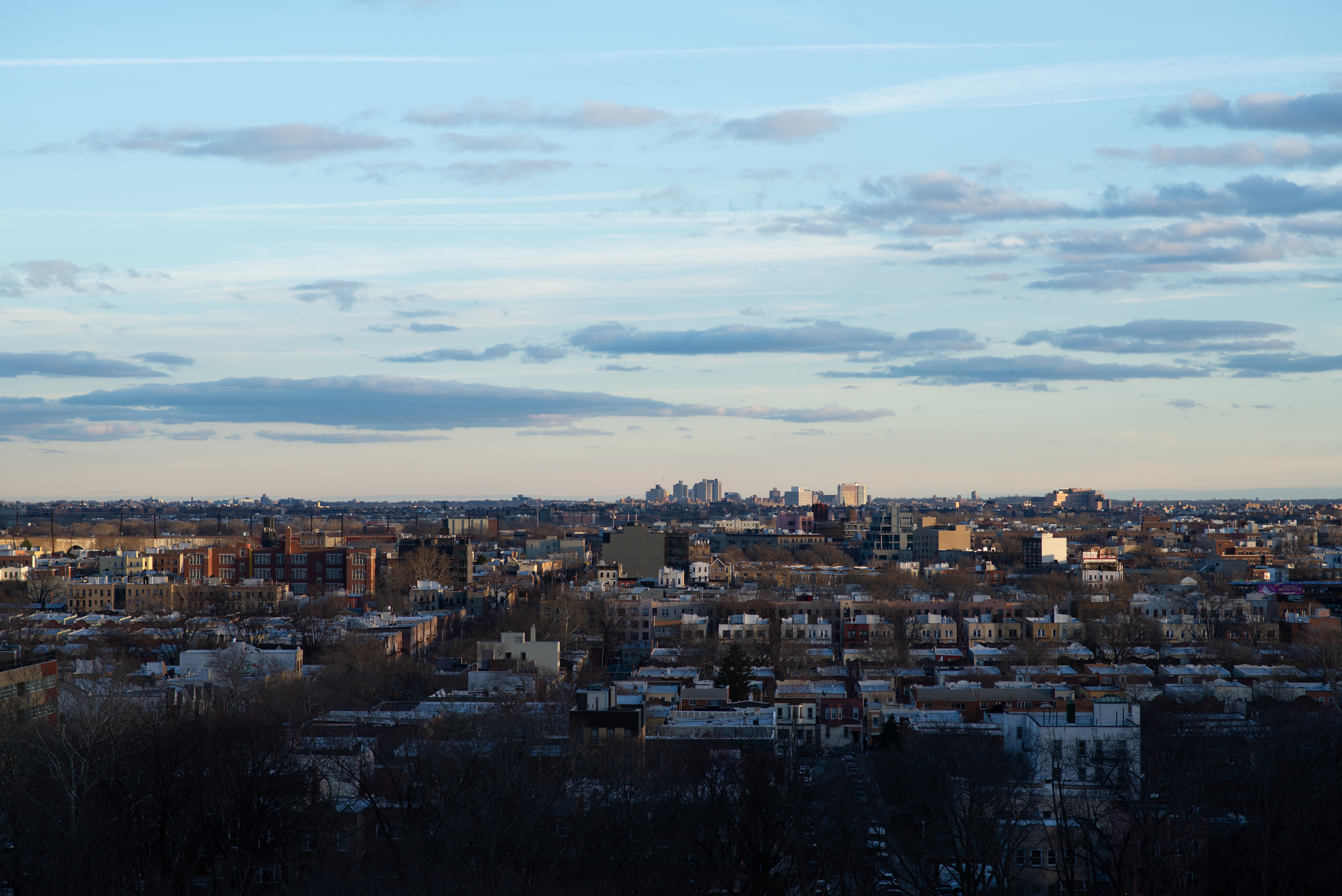 View of Astoria in Queens, NY, 24th Avenue being the main thoroughfare on the left. Catenary pylons for the train tracks approaching the Hell Gate Bridge are visible in the background left.